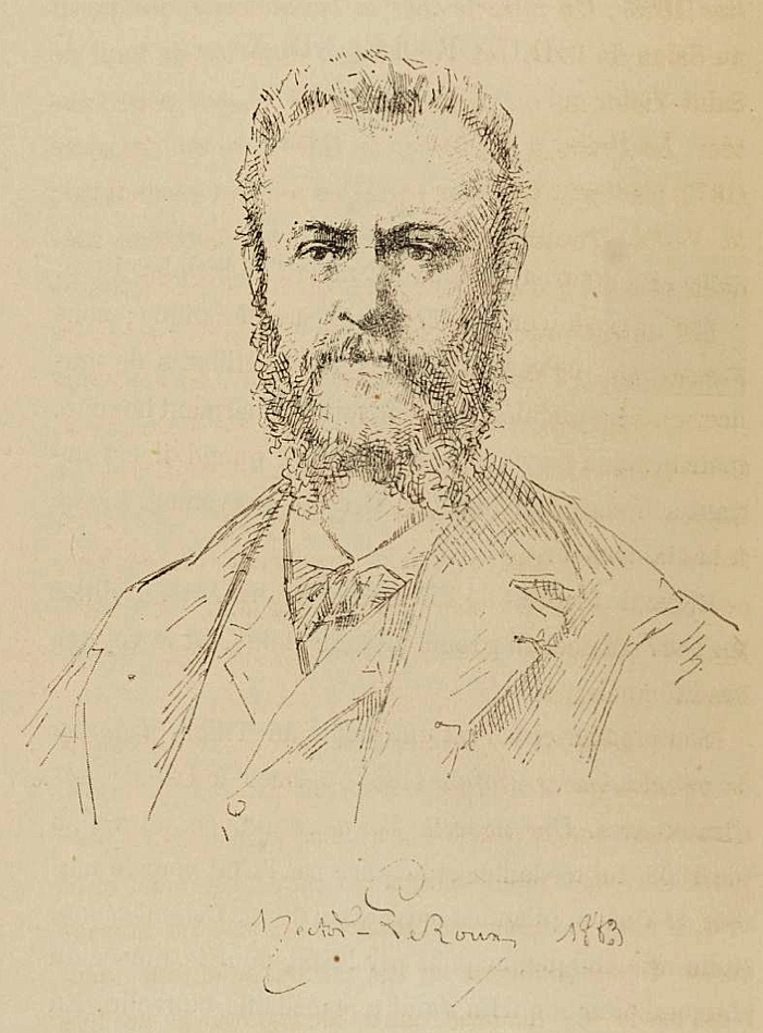 Selfportrait of Leroux, sketch